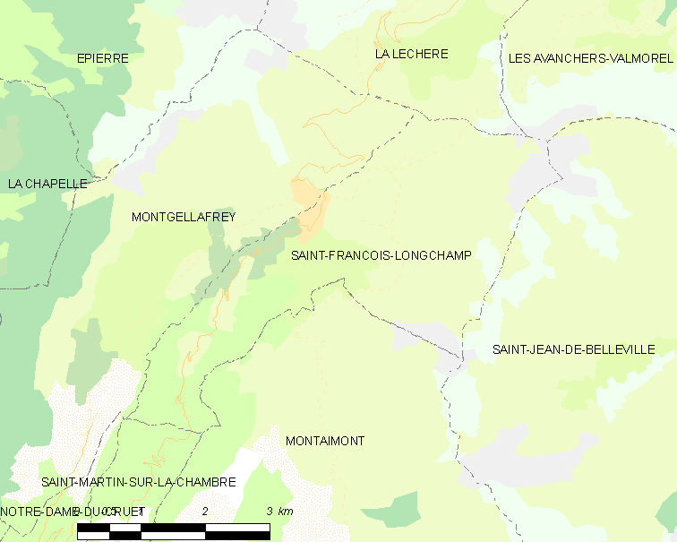 Map of French municipality